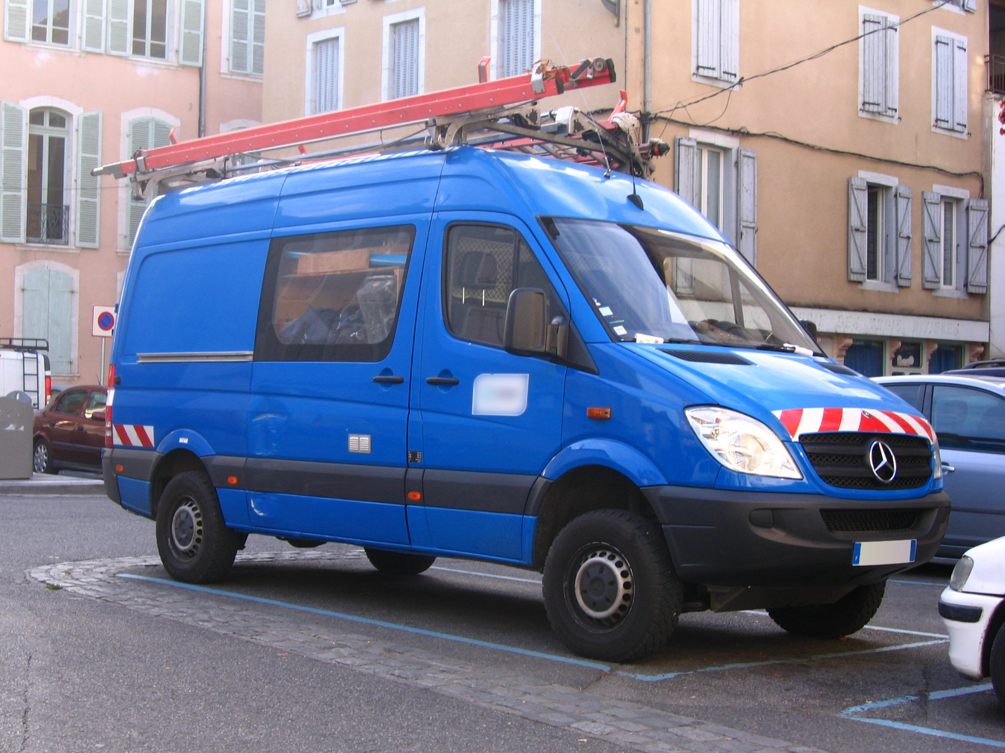 The MB Sprinter is a rear-wheel drive vehicle under normal conditions, and all-wheel drive can be activated on demand.